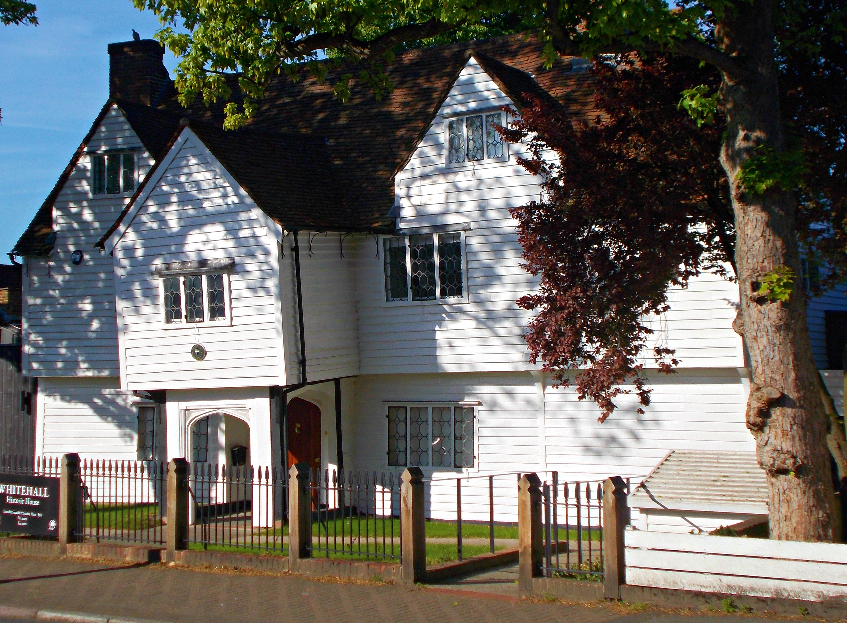 Cheam Village is a pleasant, leafy area of London about 12 miles from the centre of the city.